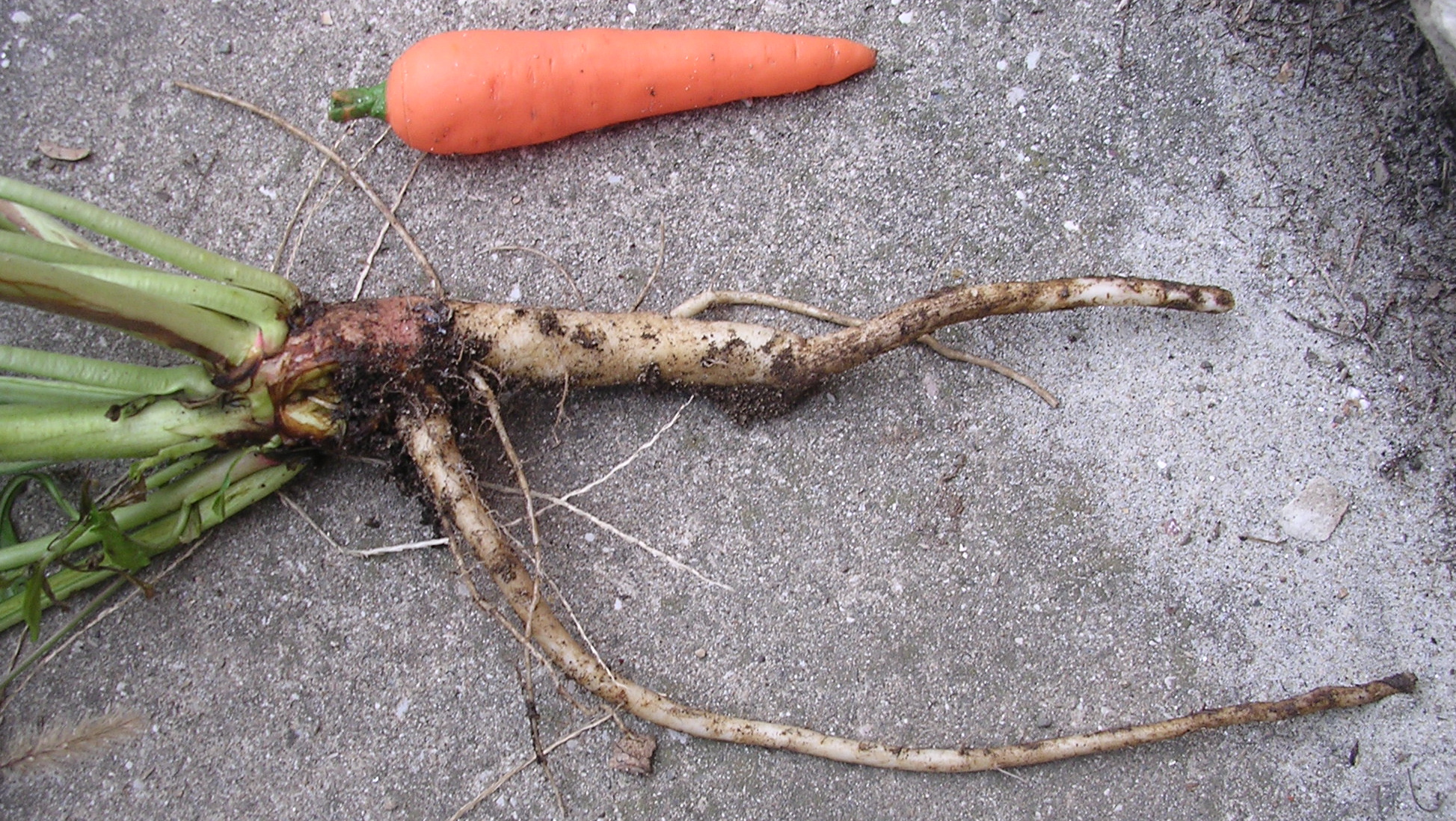 Oenothera biennis root, with plastic carrot for proportion